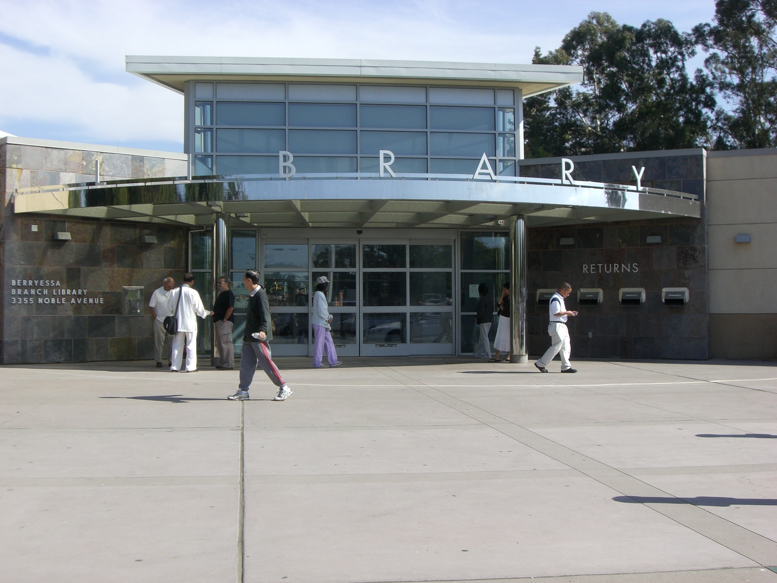 Customers wait for the library to open.